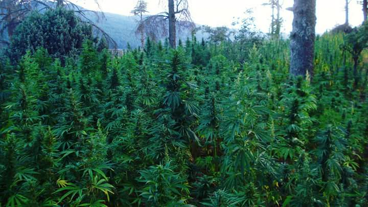 Cannabis Fields in Ketama, Morocco. near Tidighine mountain.